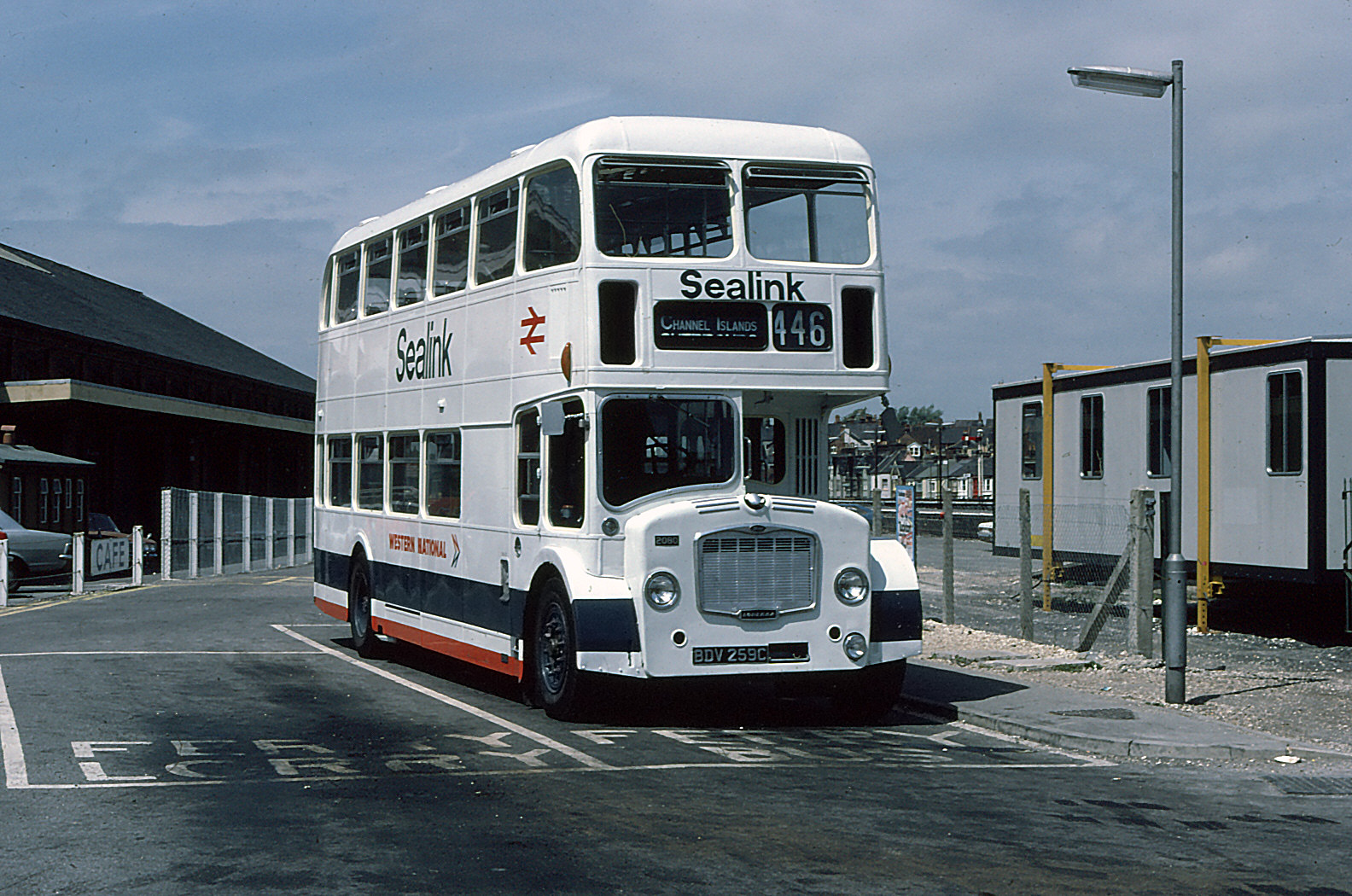 Ferry Bus. A Western National bus in Sealink colours waits to transfer passengers from Weymouth Station to the ferry. It is parked in a special bay allocated for the service. The bays can be seen in the foreground of Gordon Cragg's 1070463. On the left is the original railway goods shed, now replaced by a B&Q DIY supermarket. On the left, between the portable work cabin and the bus, the signals at the end of the platforms can be seen along with housing on Ranelagh Road. The bus is a Bristol Lodekka FLF6G with Eastern Coachworks body.